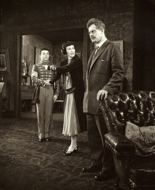 L. to R. : Timmy Everett, Eileen Heckart & Frank Overton in a scene from the stage production Dark at the Top of the Stairs, Music Box Theatre, Broadway - publicity still (original image cropped : see source)